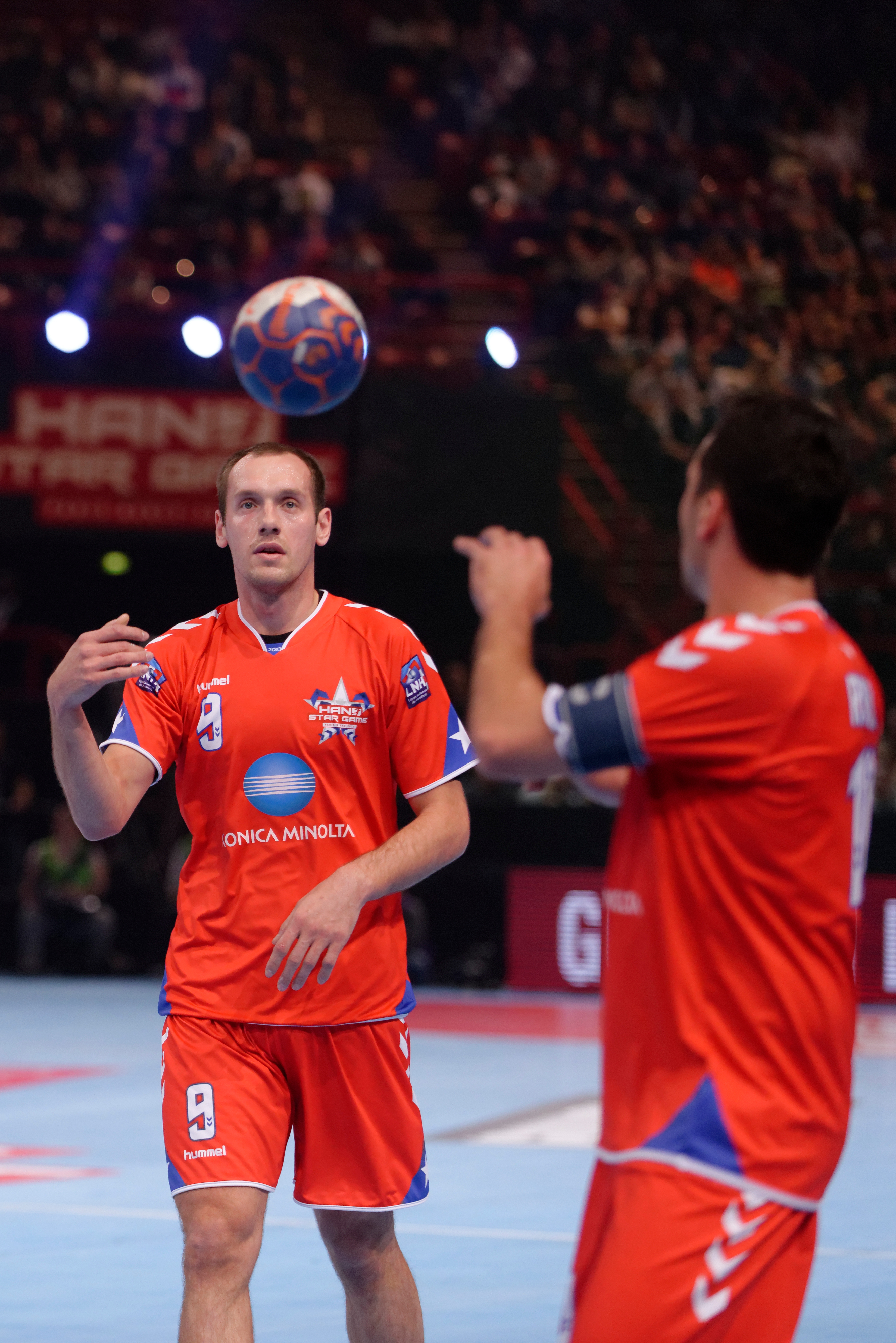 Paweł Podsiadło (facing) throws a pass to Valero Rivera during the 2013 Hand Star Game held at the Palais Omnisports de Paris-Bercy on 7 December 2013.